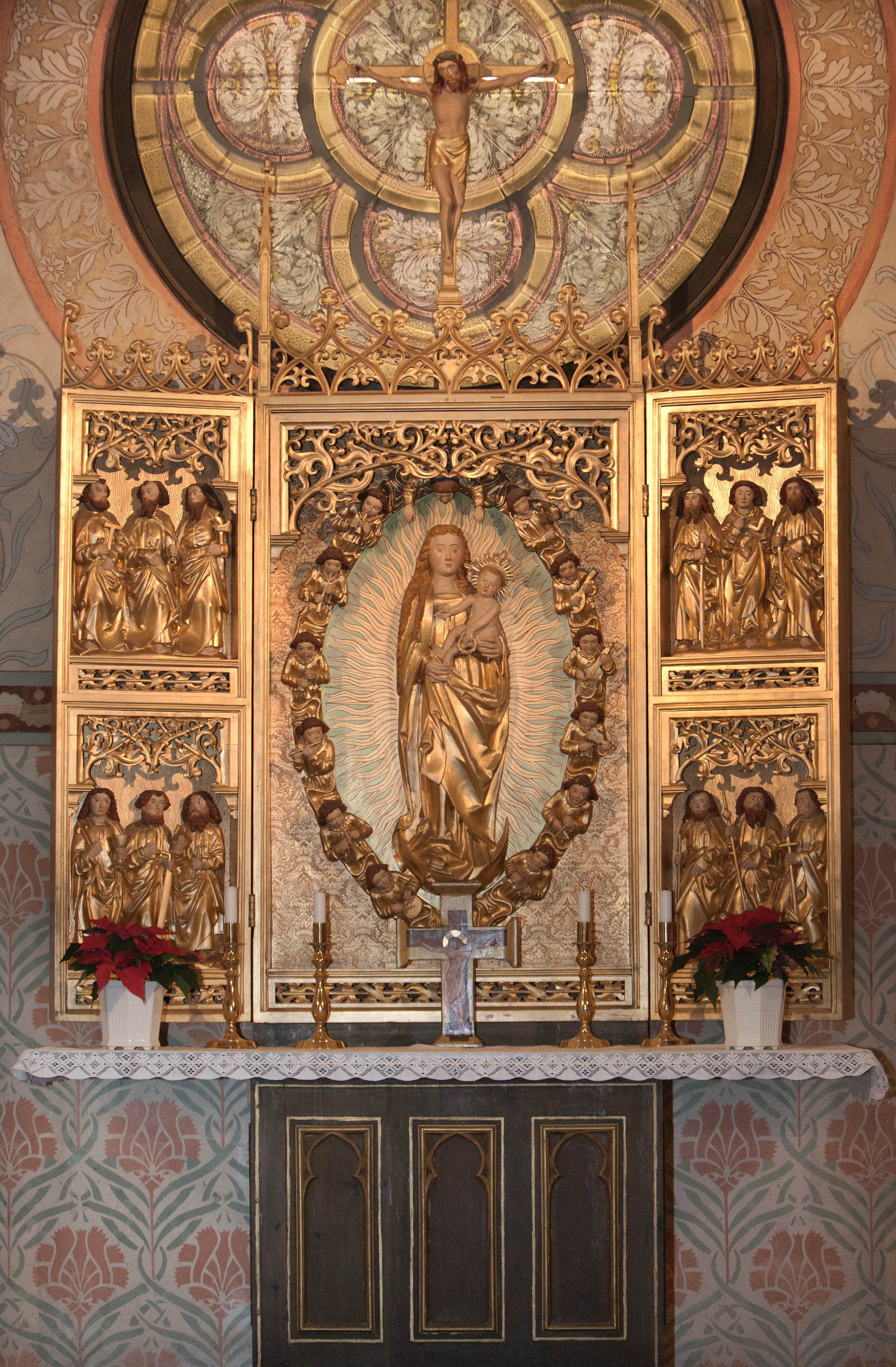 Interior of Djursholm's chapel December 2011